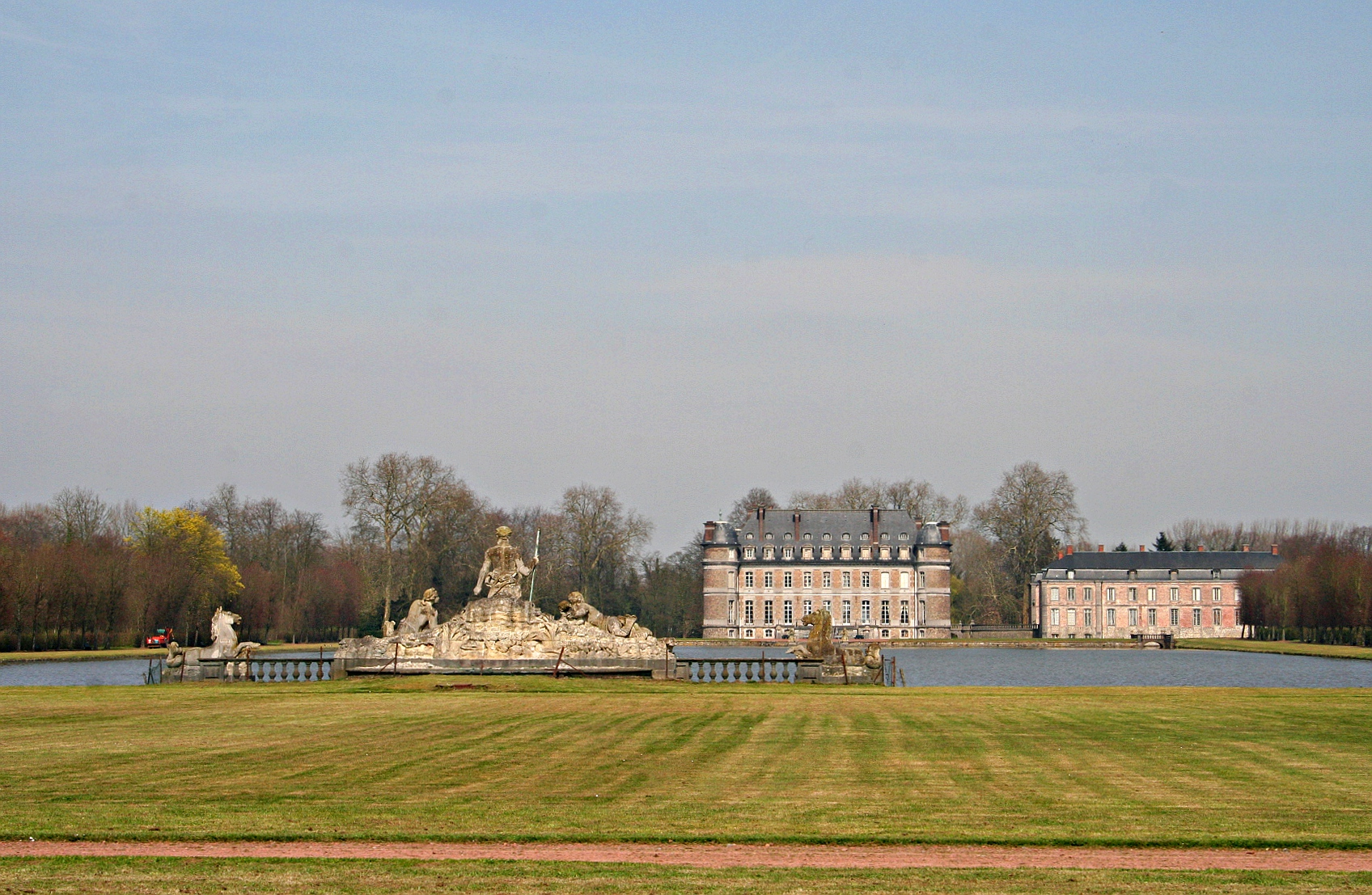 Belœil (Belgium), the Princes de Ligne castle and his remarkable park (XVIIth century).